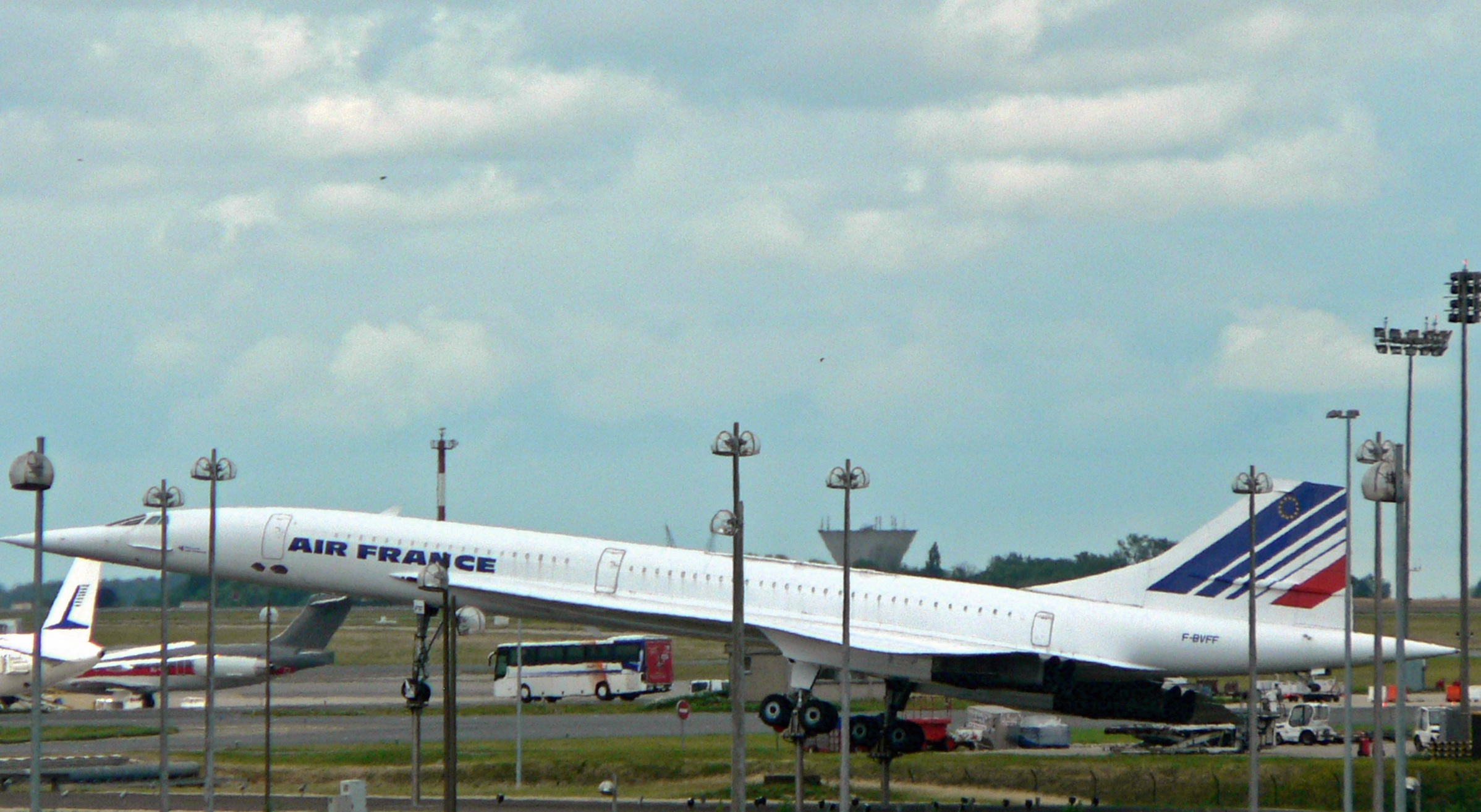 Air France Concorde at Paris-Charles de Gaulle Airport